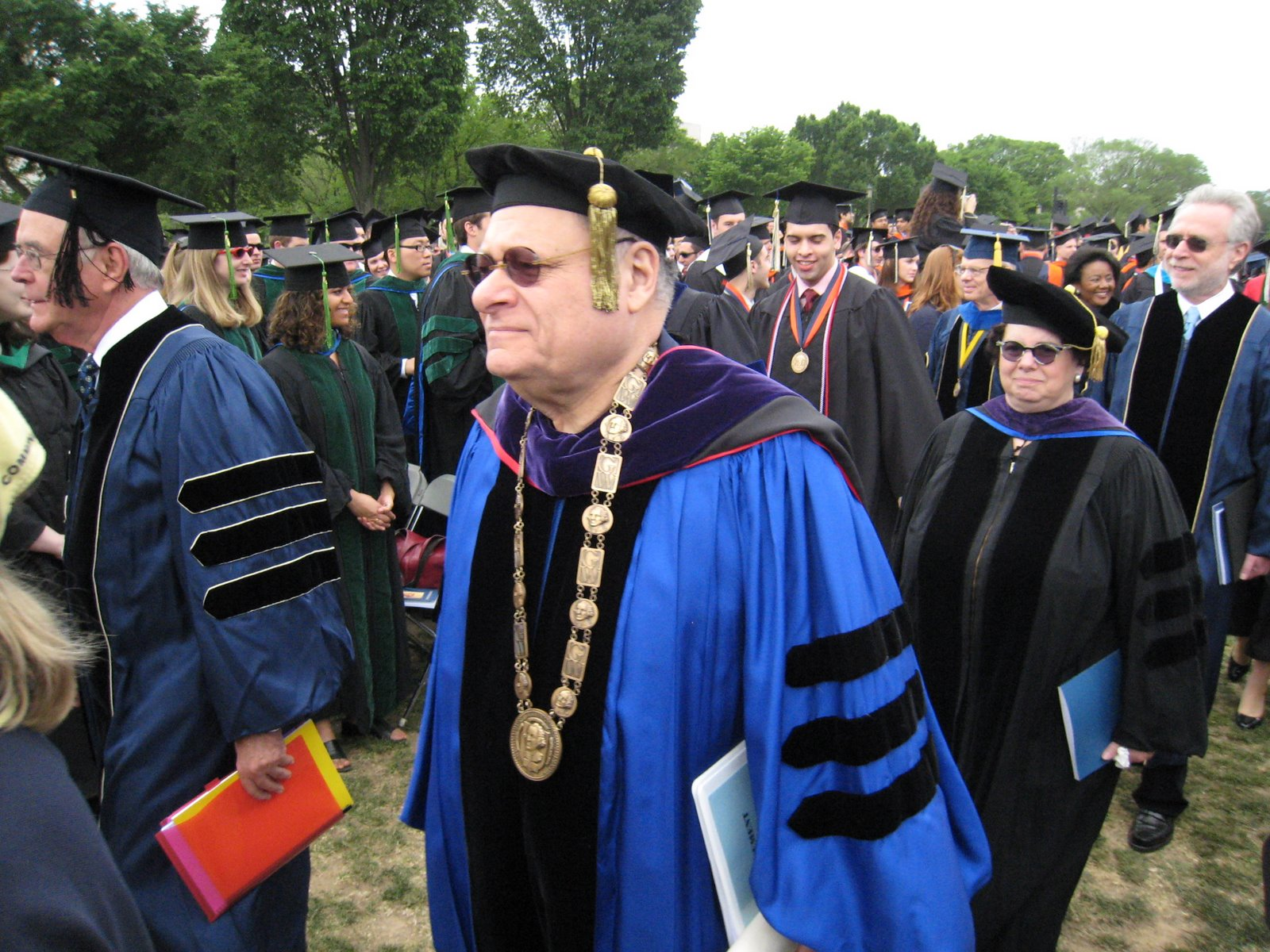 Stephen Joel Trachtenberg at the George Washington University's 2007 commencement ceremony. Wolf Blitzer, one of the Commencement speakers, can be seen on the far right side.